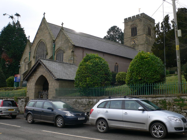 Church of St Mary and St Beuno , Whitford The church is believed to have been founded by St Beuno in the 7thC, and first appears in the written record as 'Widford' in Domesday Book in 1086.